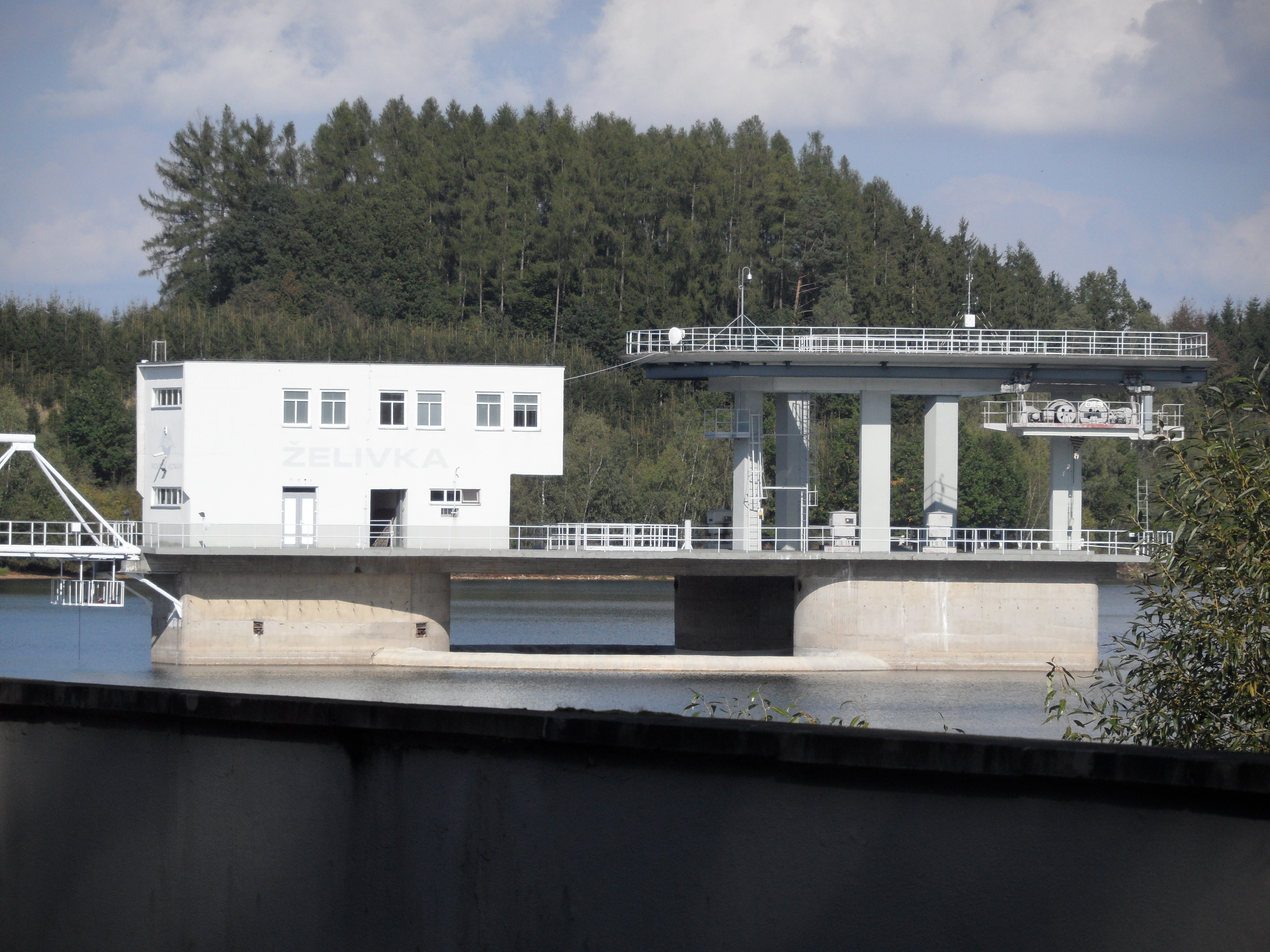 Švihov (Želivka) Dam B. Water Tower near Dam Crest, Kutná Hora District, the Czech Republic.